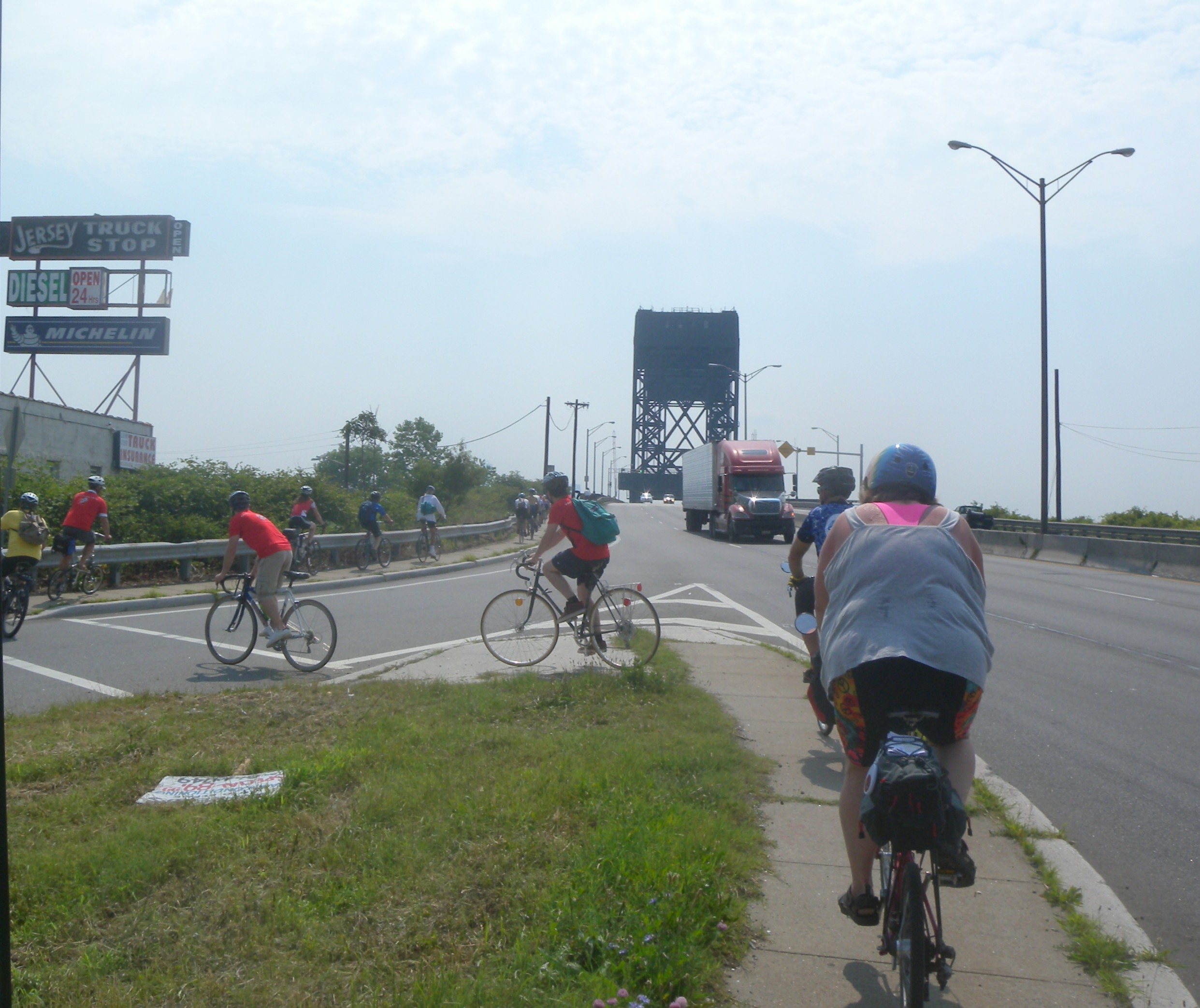 Looking east as Greenway tour approach bridge over Hackensack River on a hazy morning.